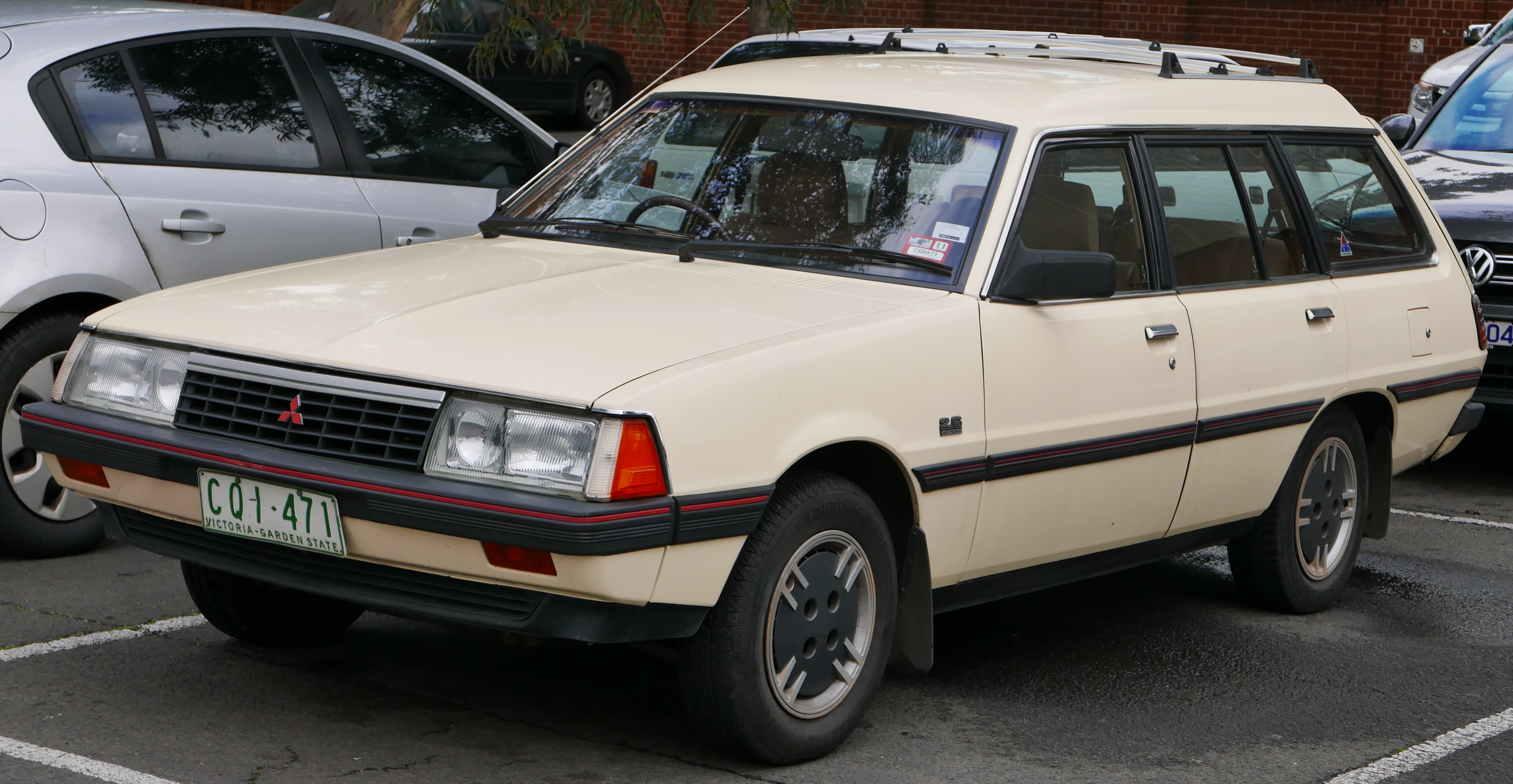 1985 Mitsubishi Sigma (GN) GL 2.6 station wagon. Photographed in Brunswick, Victoria, Australia. Vehicle registration enquiry results Jurisdiction Victoria Registration CQI471 Chassis code Not available Engine code M561T02217 Compliance date Not available Year of manufacture 1985